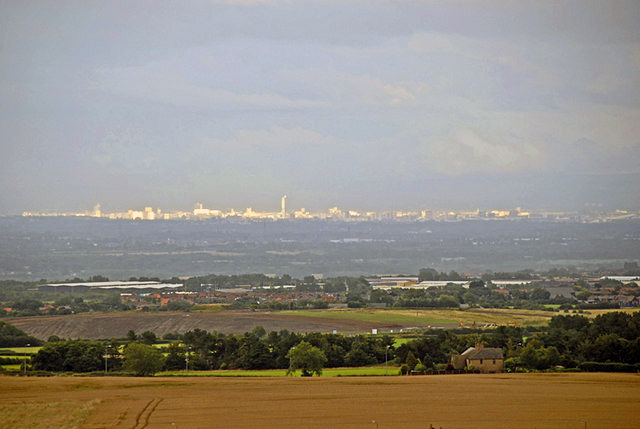 A view over Greater Manchester, towards Manchester City Centre, from Billinge Hill, at the west-southwestern boundary of Greater Manchester, England.